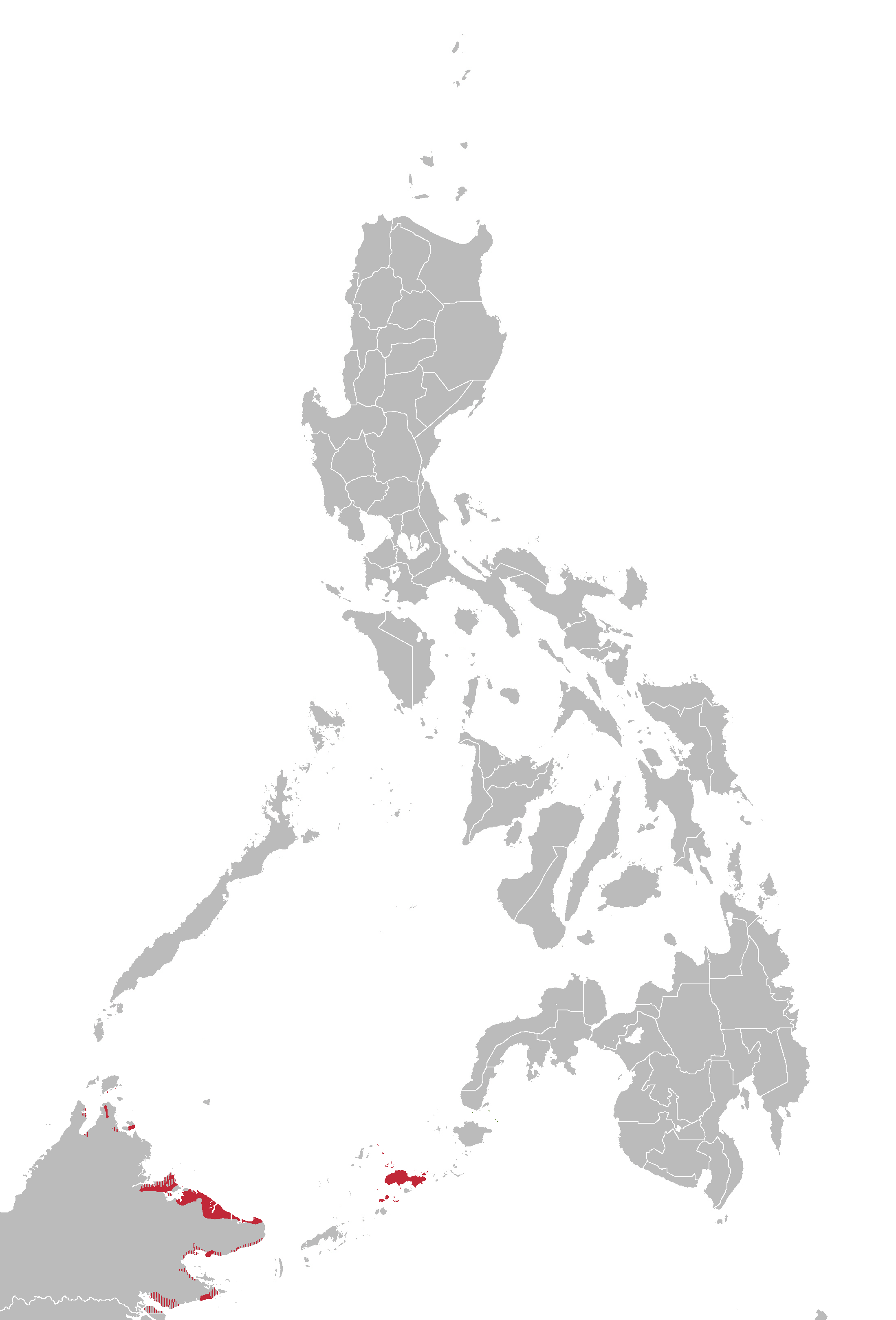 Tausug language map based on Ethnologue maps